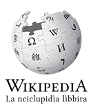 Wikipedia logo 2.0